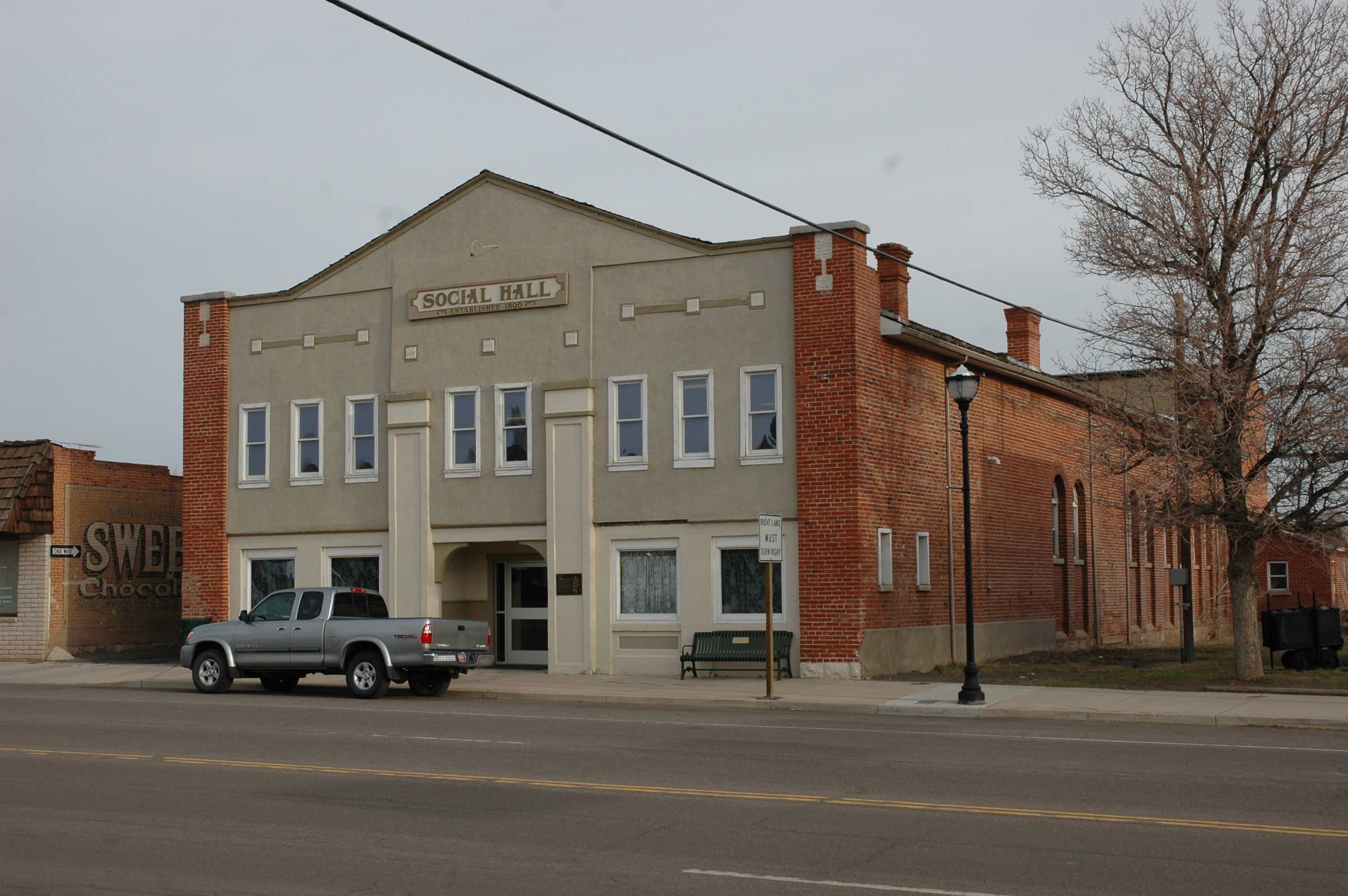 The Panguitch Social Hall, a historic building in Panguitch, Utah, United States.